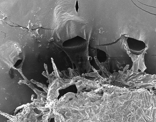 Double sided tape under an SEM.